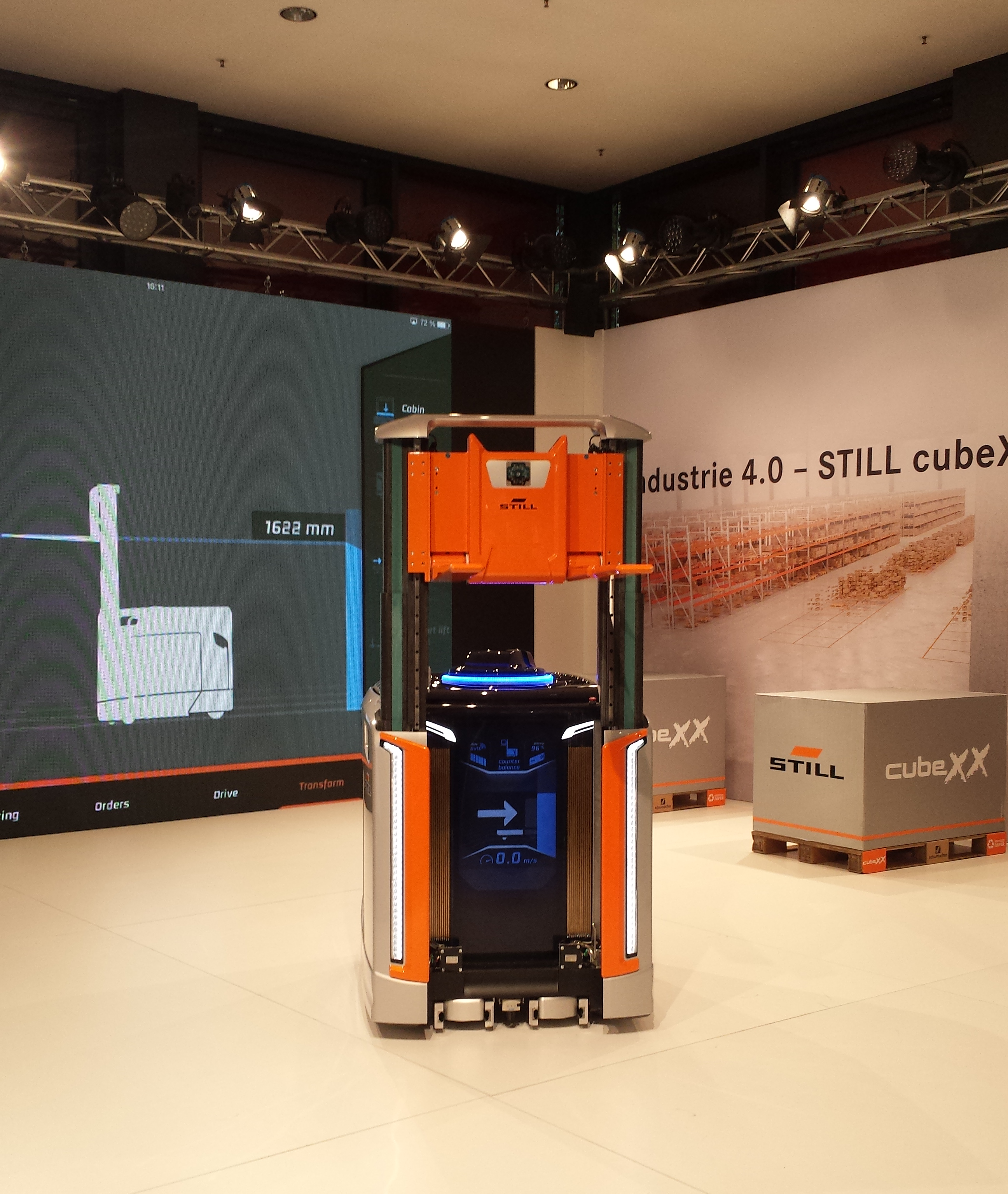 Multifunctional forklift prototype Still cubeXX in high stacking mode